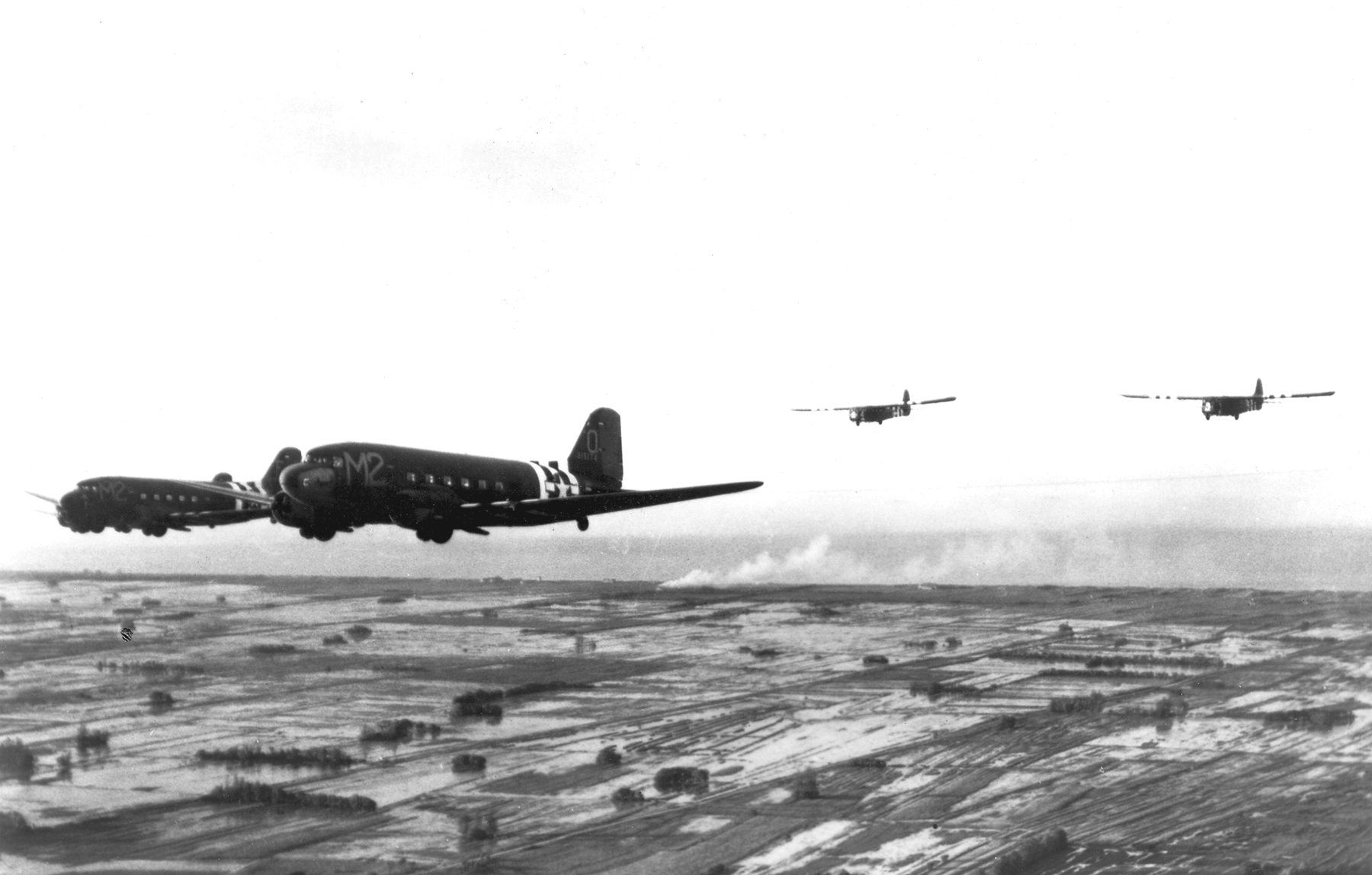 U.S. Army Air Forces Douglas C-47A Skytrain (43-15174 in front) from the 88th Troop Carrier Squadron, 438th Troop Carrier Group, 53rd Troop Carrier Wing, 9th Troop Carrier Command, tow Waco CG-4A gliders during the invasion of France in June 1944. On 6 June 1944, the squadron dropped the 101st Airborne Division's 502d Parachute Infantry Regiment soon after midnight in the area northwest of Carentan, France. Glider-borne reinforcement missions followed, carrying weapons, ammunition, rations, and other supplies. The Douglas C-47B-15-DK, s/n 43-49507 (c/n 26768), is today on display at the National Museum of the U.S. Air Force, painted as 43-15174 of the 88th TCS. 43-49507 was the last C-47 in USAF service and was retired at the museum on 30 June 1975 with a total of 20,821 hours flying time.